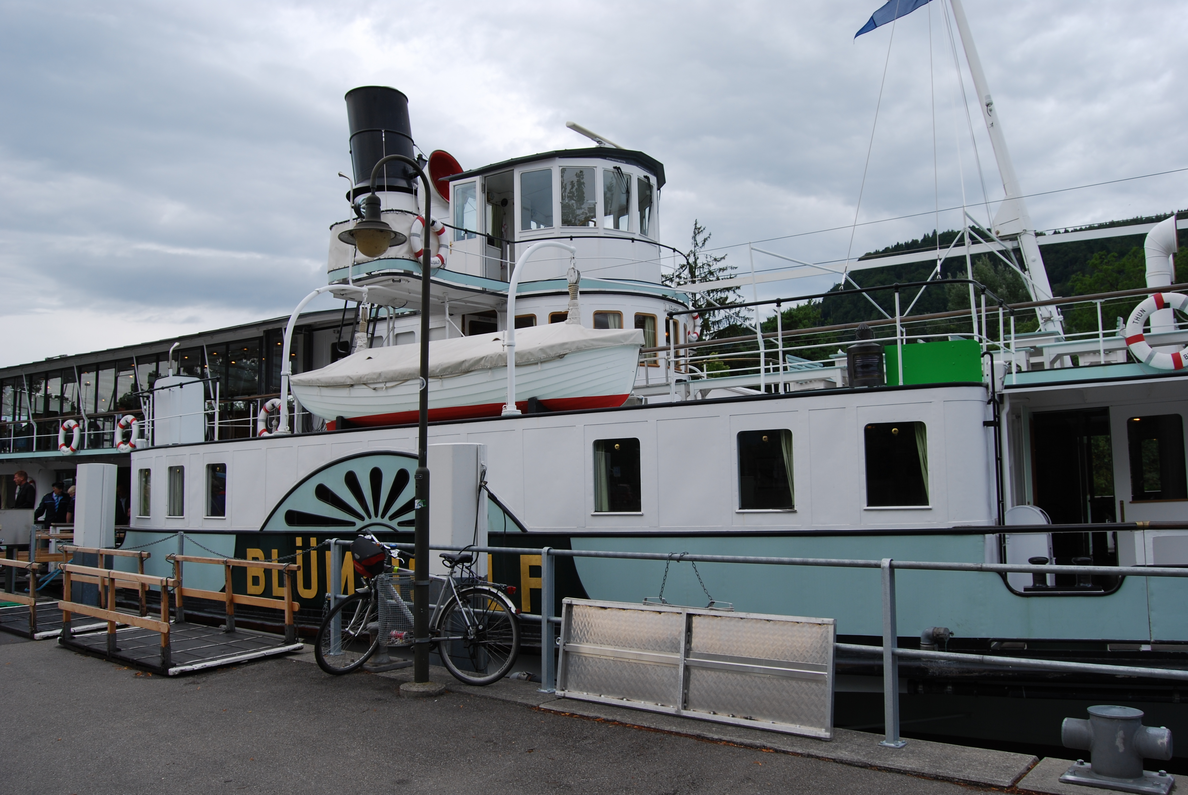 Steam ship Blümlisalp on Lake Thun, canton of Bern, Switzerland